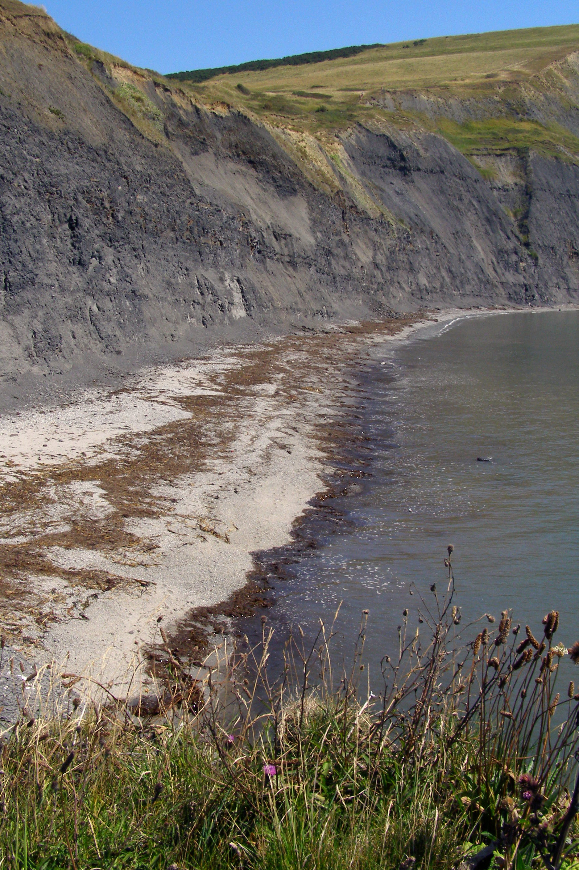 Egmont Bight beach and cliffs from the Freshwater Steps promontory, Dorset, U.K.